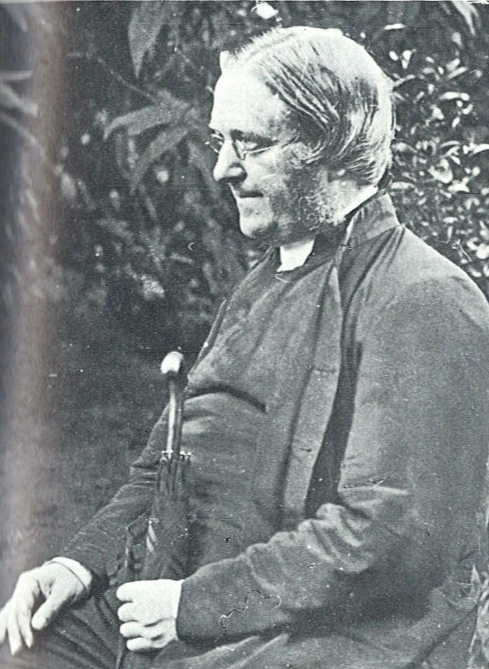 Scan of a page of The Journal of Henry Sewell, Vol I. Quote by Sewell): Plate 10: Rev. Henry Jacobs "Jacobs improves very much on acquaintance"